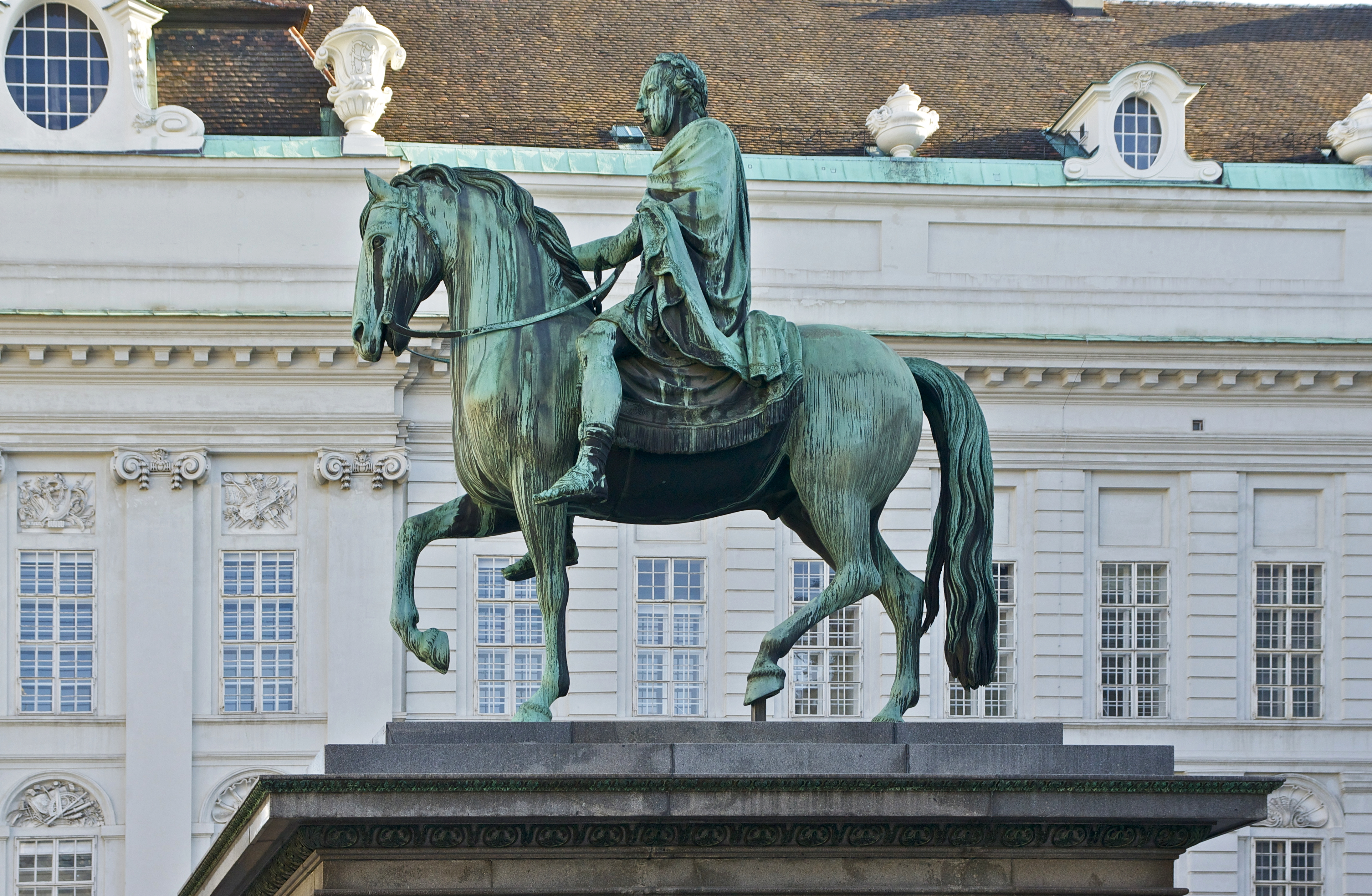 Statue of Holy Roman Emperor Joseph II, by Franz Anton Zauner (1746-1822, austrian), Josefsplatz, Vienna, Austria.